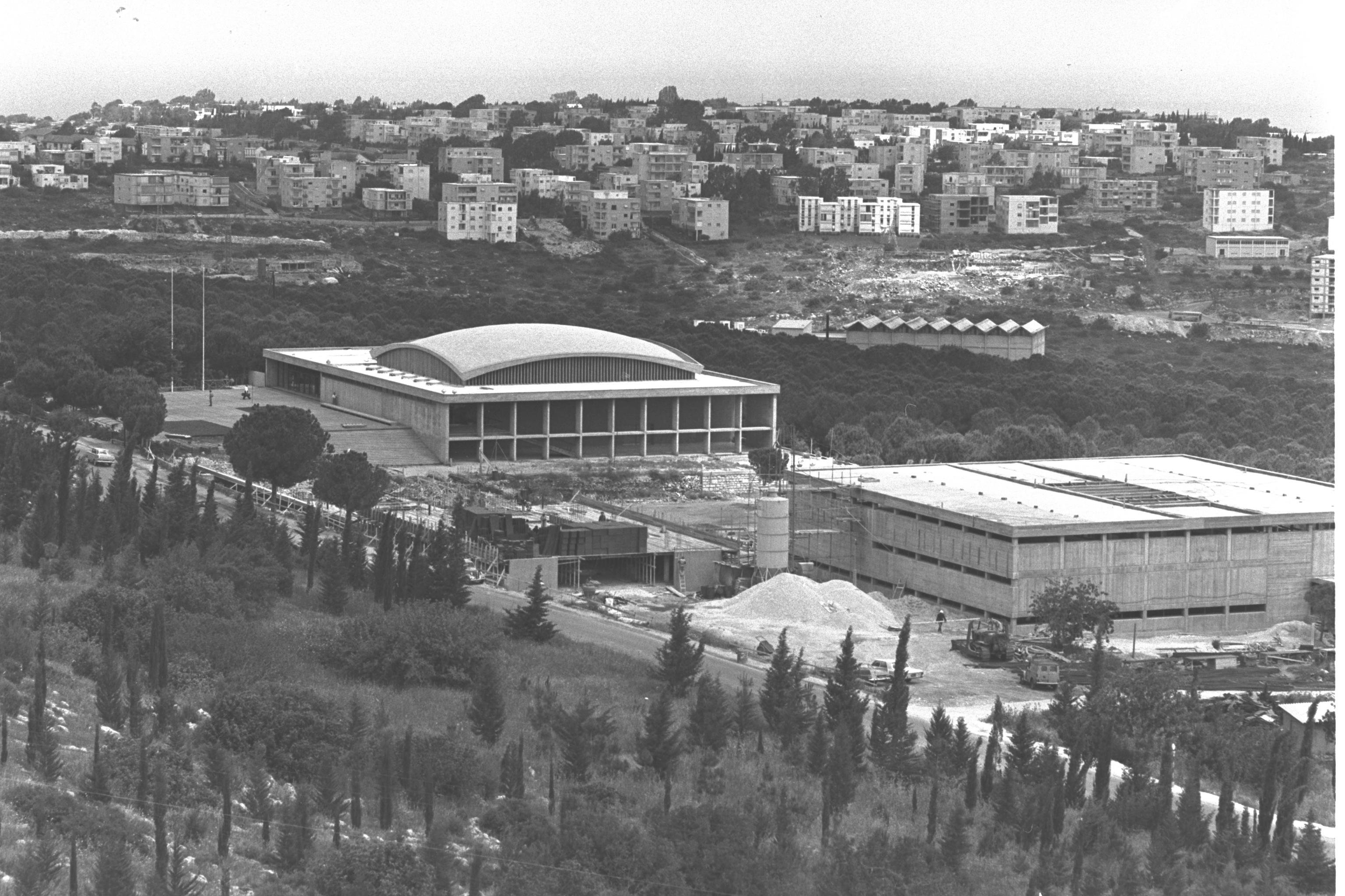 THE CHURCHILL AUDITORIUM & THE LIBRARY UNDER CONSTRUCTION AT THE HAIFA TECHNION.